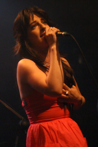 the Israeli actress Hila Zaharur